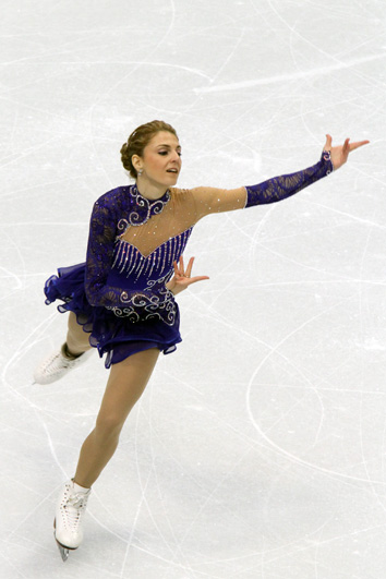 Júlia Sebestyén at the 2010 Winter Olympics.